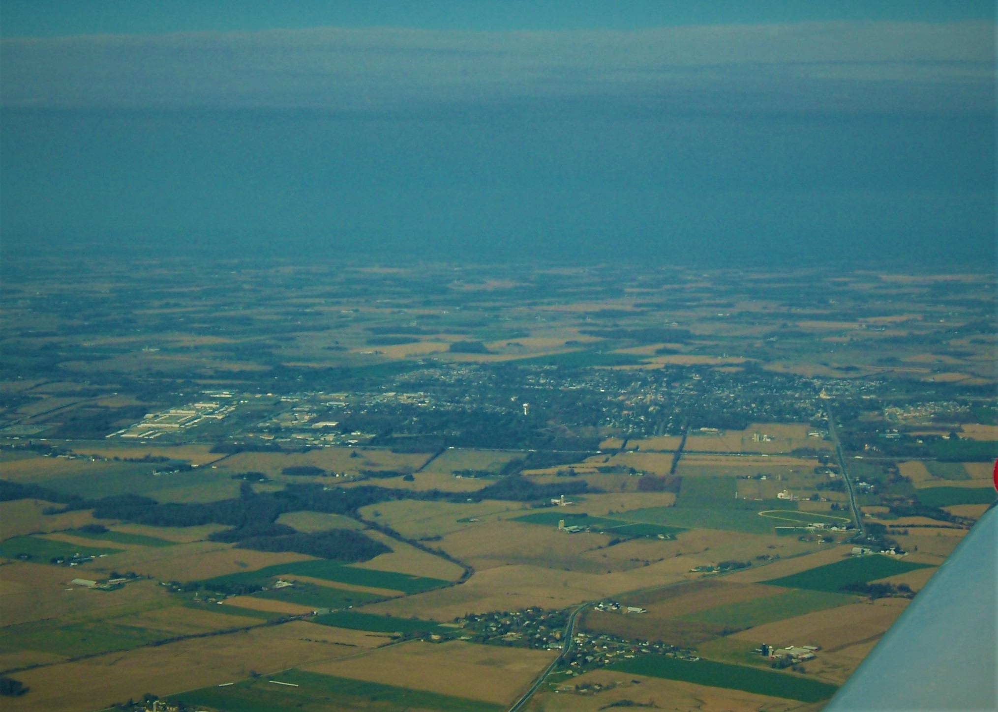 Ingersoll, Ontario